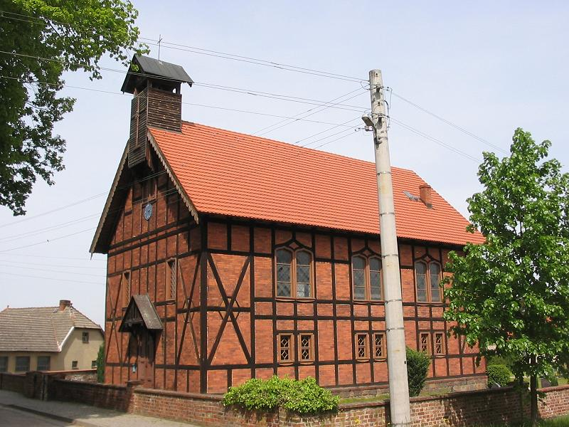 Timber framing church in Dippmannsdorf, a village (part) of the town Belzig in Brandenburg, Germany. Built in 1860 according to general plans by Friedrich August Stüler for church- and schoolbuildings; Stüler was follower of Karl Friedrich Schinkel.